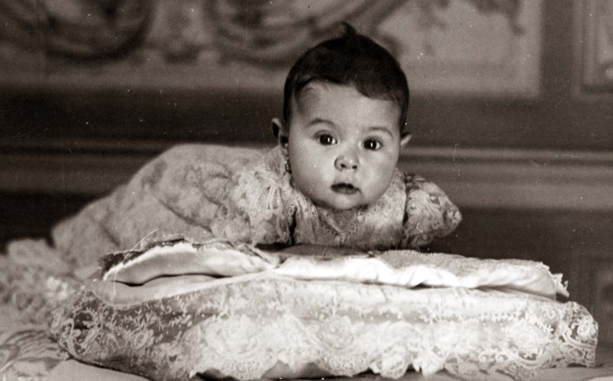 Princess Ferial, daughter of King Farouk I of Egypt.